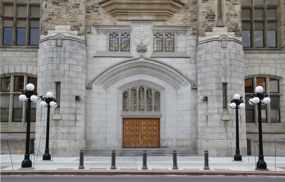 Gateway